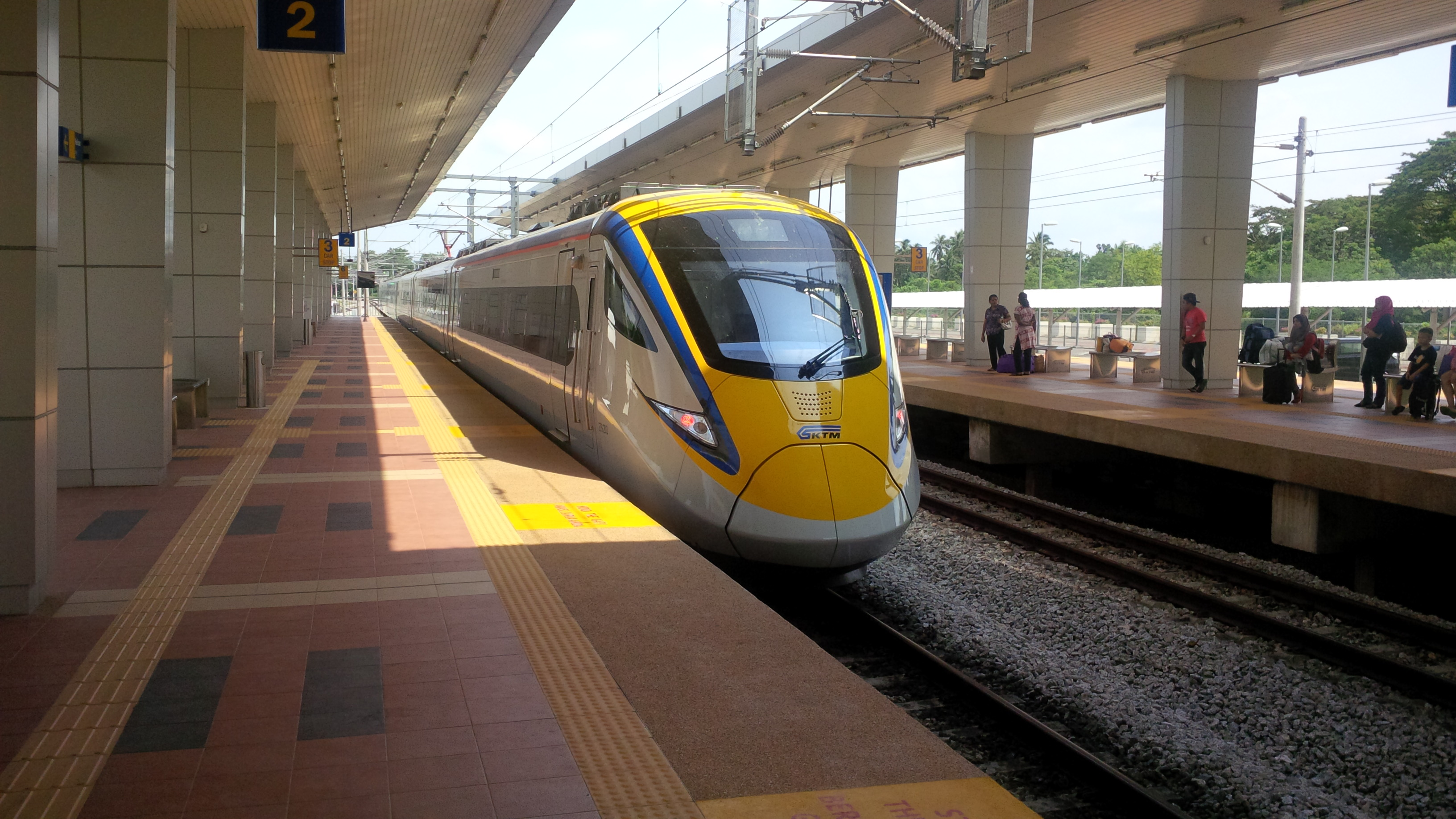 The KTM Class 93 ETS train No 203 leaving Pulau Sebang/Tampin Station heading towards Gemas.